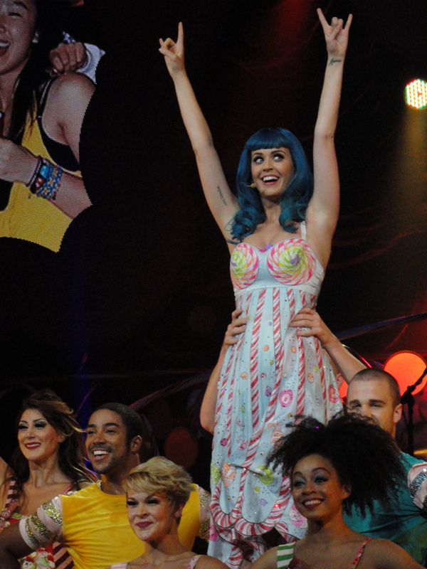 Katy Perry performing live in Seattle, WA in July 2011